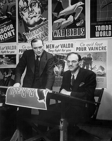 Ronny Jaques. National Film Board of Canada. Still Photography Division. Library and Archives Canada, a179108 / Ronny Jaques. Office national du film du Canada. Service de la photographie. Bibliothèque et Archives Canada, a179108